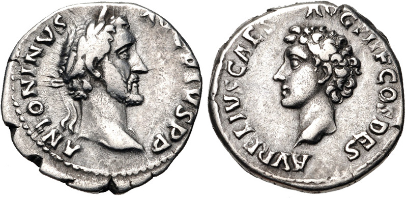 Antoninus Pius, with Marcus Aurelius as Caesar. AD 138-161. AR Denarius (18mm, 3.44 g, 6h). Rome mint. Struck AD 139. Laureate bust of Antoninus Pius right, slight drapery / Bare head of Marcus Aurelius left. RIC III 412a var. (no slight drapery); RSC 3 var. (same). VF. Rare with slight drapery. First numismatic portrait of Marcus Aurelius.